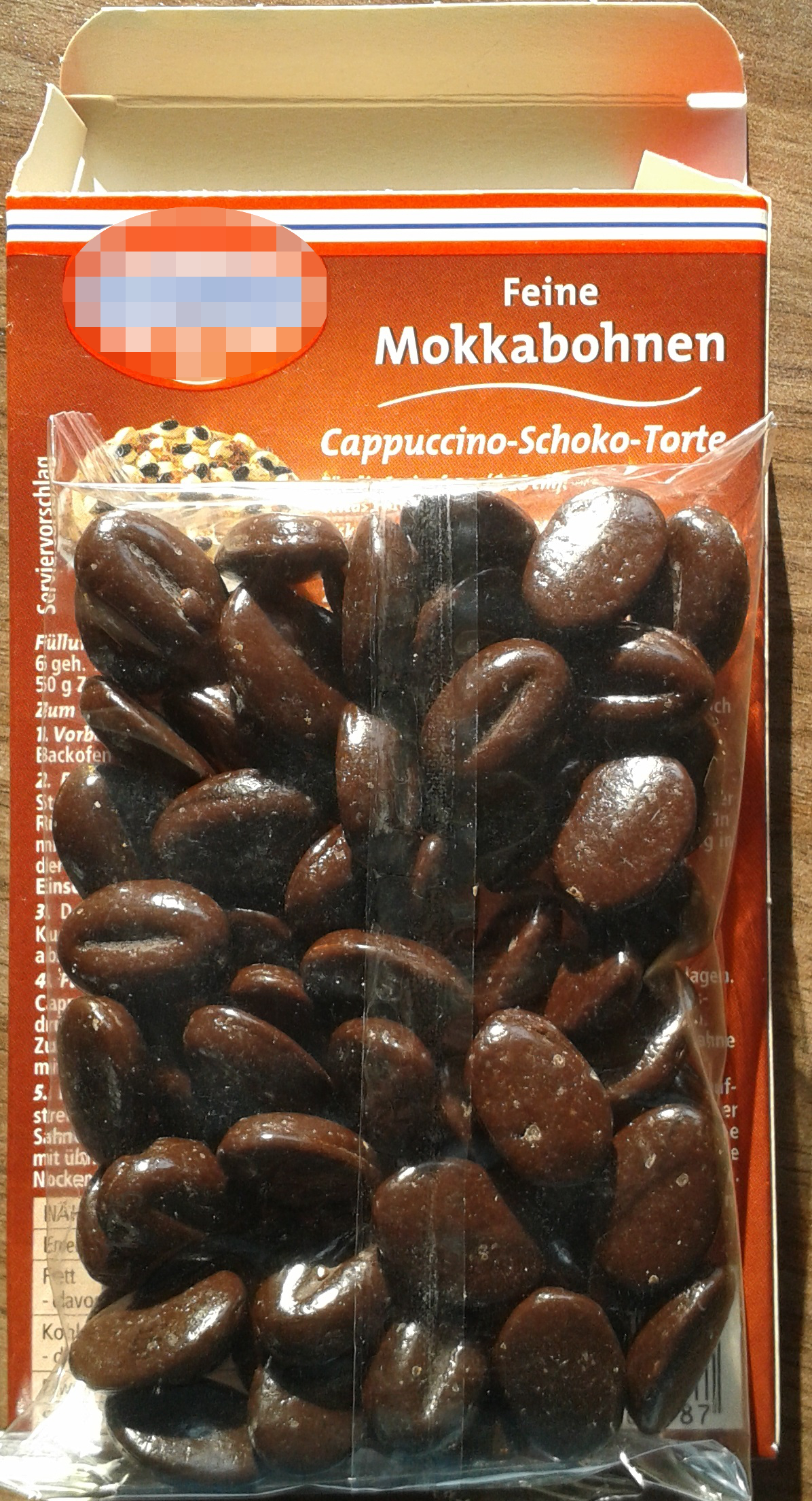 Bluff/misleading packaging of a chocolate product. Trademark of the german producer was removed..